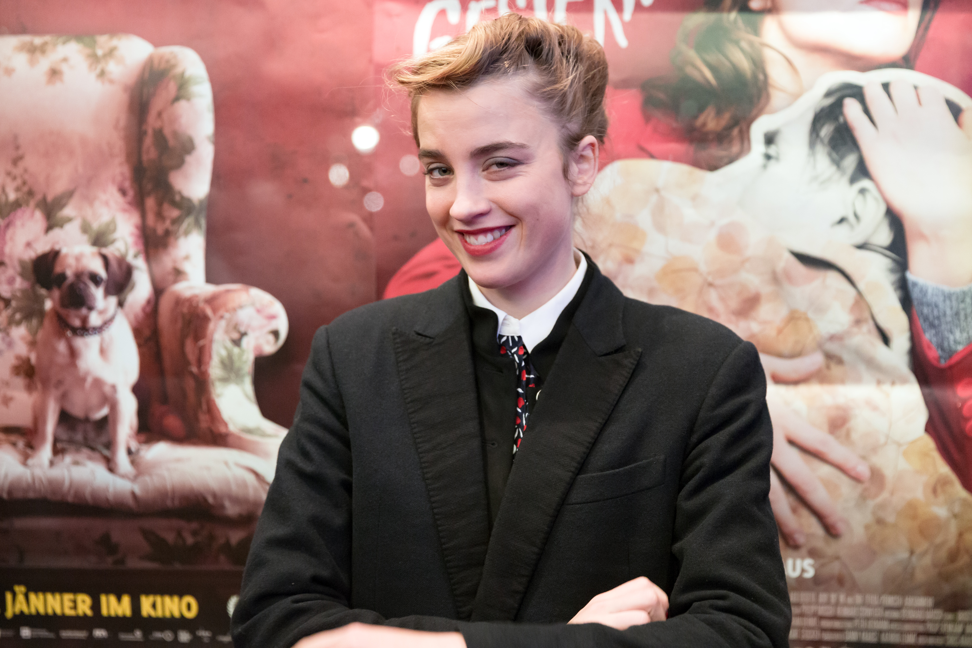 Adèle Haenel at the Austrian premiere of Die Blumen von gestern at Gartenbaukino, Vienna, Austria.